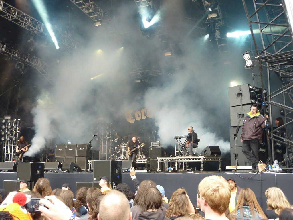 Coroner live at Bloodstock Open Air (2011).